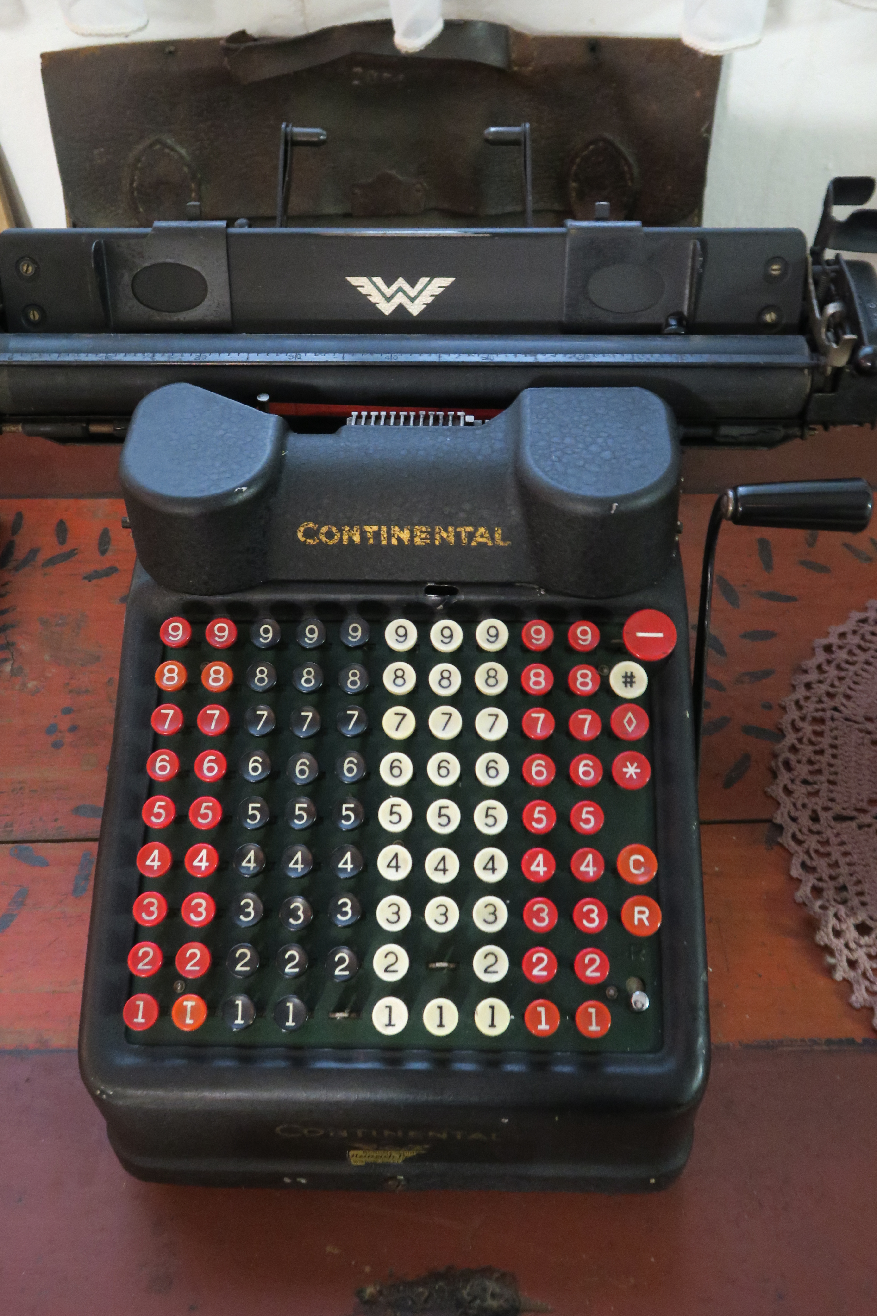 Mechanical adding machines